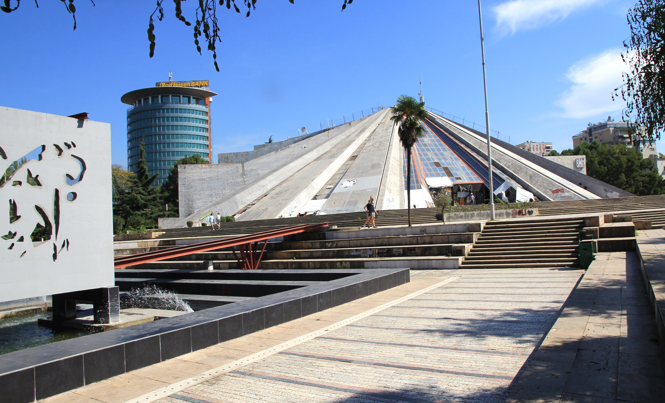 The international cultur centrum Pyramid of Tirana in the capitol of Albania, Tirana, September 2018